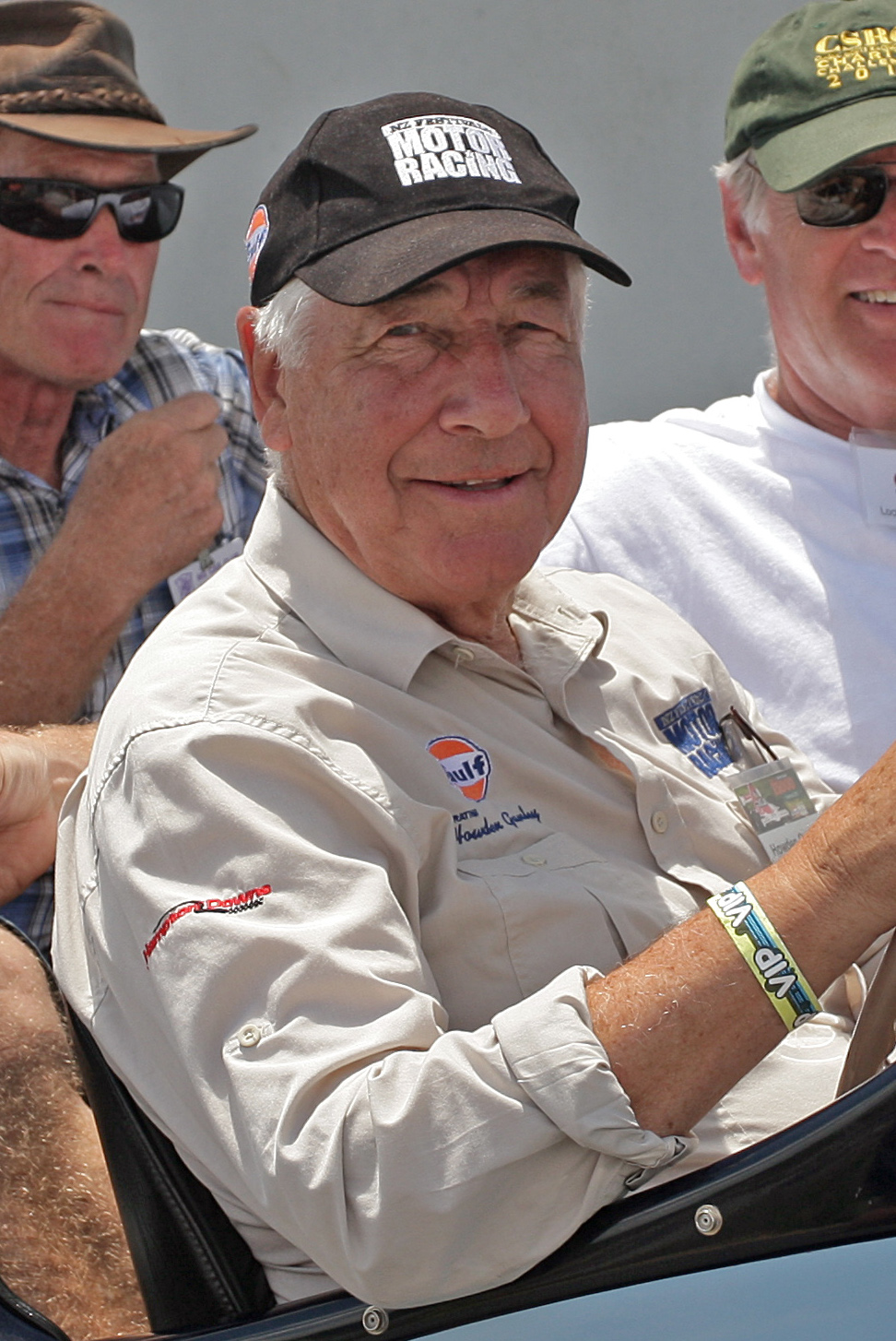 Howden Ganley seen at the 'New Zealand Festival of Motor Racing Celebrating Howden Ganley' held in January 2015 at Hampton Downs motor racing circuit.